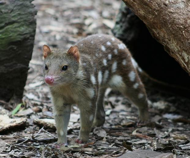 Tiger quoll (Dasyurus maculatus) at Featherdale Wildlife Park, Sydney, Australia